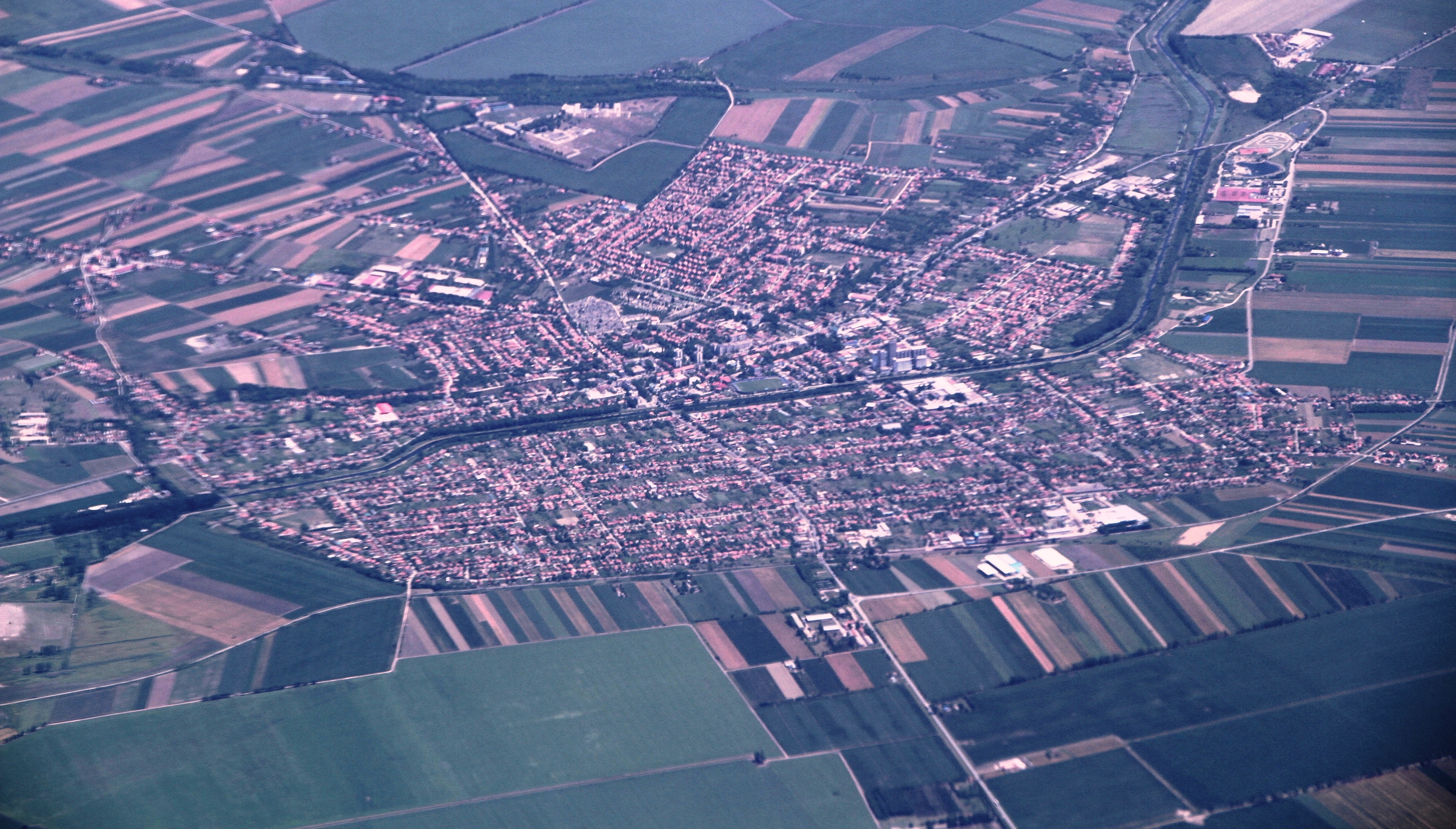 Aerial view from the west towards east, of Kula city in Kula municipality, in the region of Srem/Backa in western Vojvodina, north Serbia